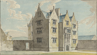 Hen Blas, Llanasa by Moses Griffith c1776.